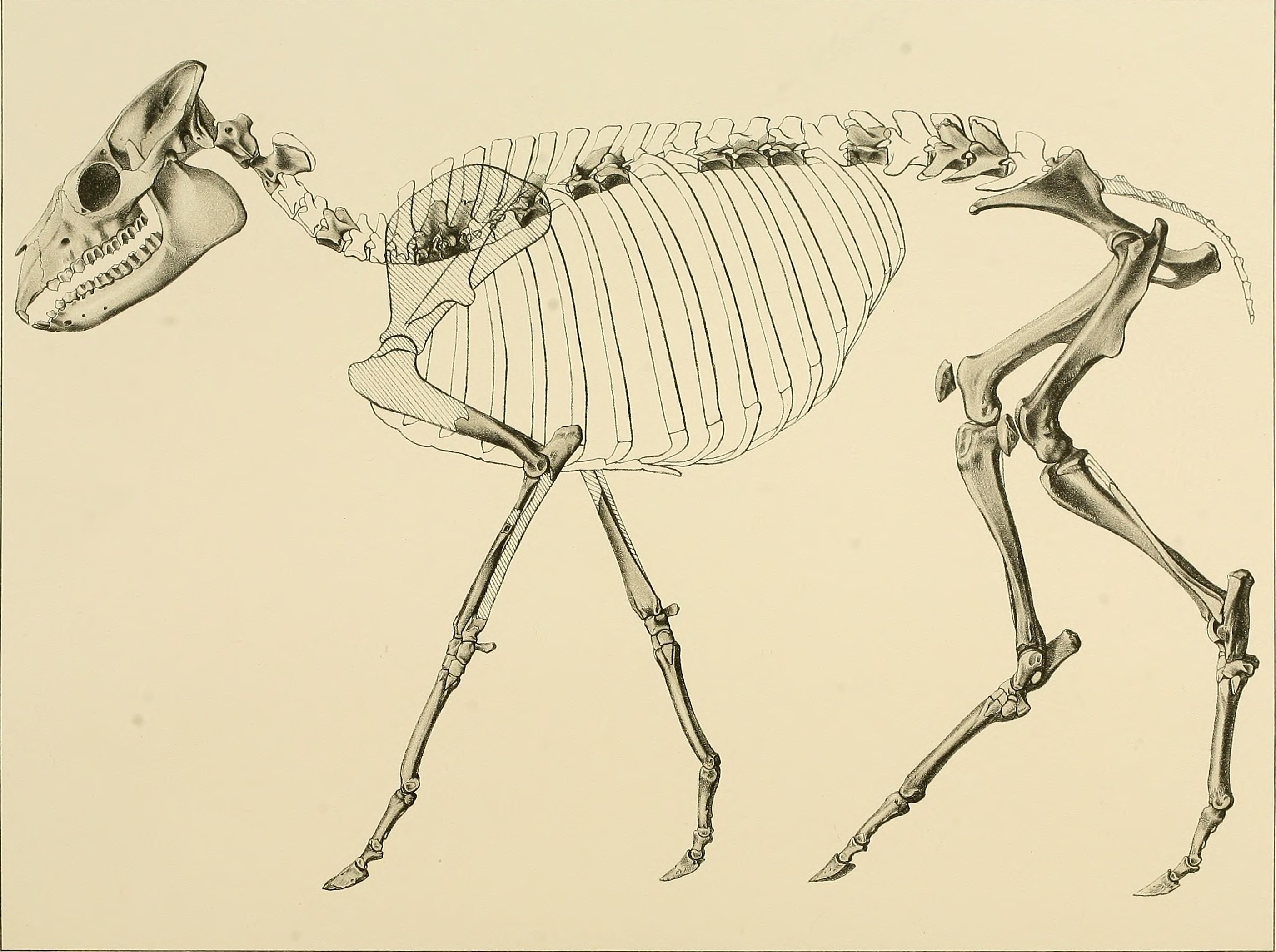 Title: Reports of the Princeton University Expeditions to Patagonia, 1896-1899. J. B. Hatcher in charge Year: 1901 (1900s) Authors: Princeton University Expeditions to Patagonia, 1896-1899 Hatcher, J. B. (John Bell), 1861-1904 Scott, William Berryman, 1858-1947 Subjects: Scientific expeditions Birds Zoology Paleontology Botany Publisher: Princeton, The University Text Appearing Before Image: Bruce Horsfall del Werner 5 Winter, Frankfon M Thoatherium PATAGONIAN EXPEDITIONS: PALAEONTOLOGY. EXPLANATION OF PLATE XV. PAGE Thoatherium minusculum : Restoration of skeleton, about one-third of the natural size ............. 99 (vol. VII.) Patagonian Expeditions Vol.vii. Plate xv. Text Appearing After Image: 3ruce Horsfall del Werner 6. Winter, ri-anktori vM THOAjrHERIUM PATAGONIAN EXPEDITIONS: PALEONTOLOGY. EXPLANATION OF PLATE XVL PAGE Theosodon garrettorum, type : Restoration of skeleton X about J^. Almostall of the bones are from the type-specimen, No. 15,164; the vertebraeof the neck and trunk appear to form an uninterrupted series of 19, butthis is somewhat uncertain. Missing details of the vertebrae have beensupplied from T. lallemanti and, for this reason, the neural spines of theposterior thoracic and lumbar regions have been made somewhat tooheavy 141 (vol. VII.) Patagonian Expeditk F.v, Iterson 1^ Patagonian Expeditions Vola^. Plate xa/i